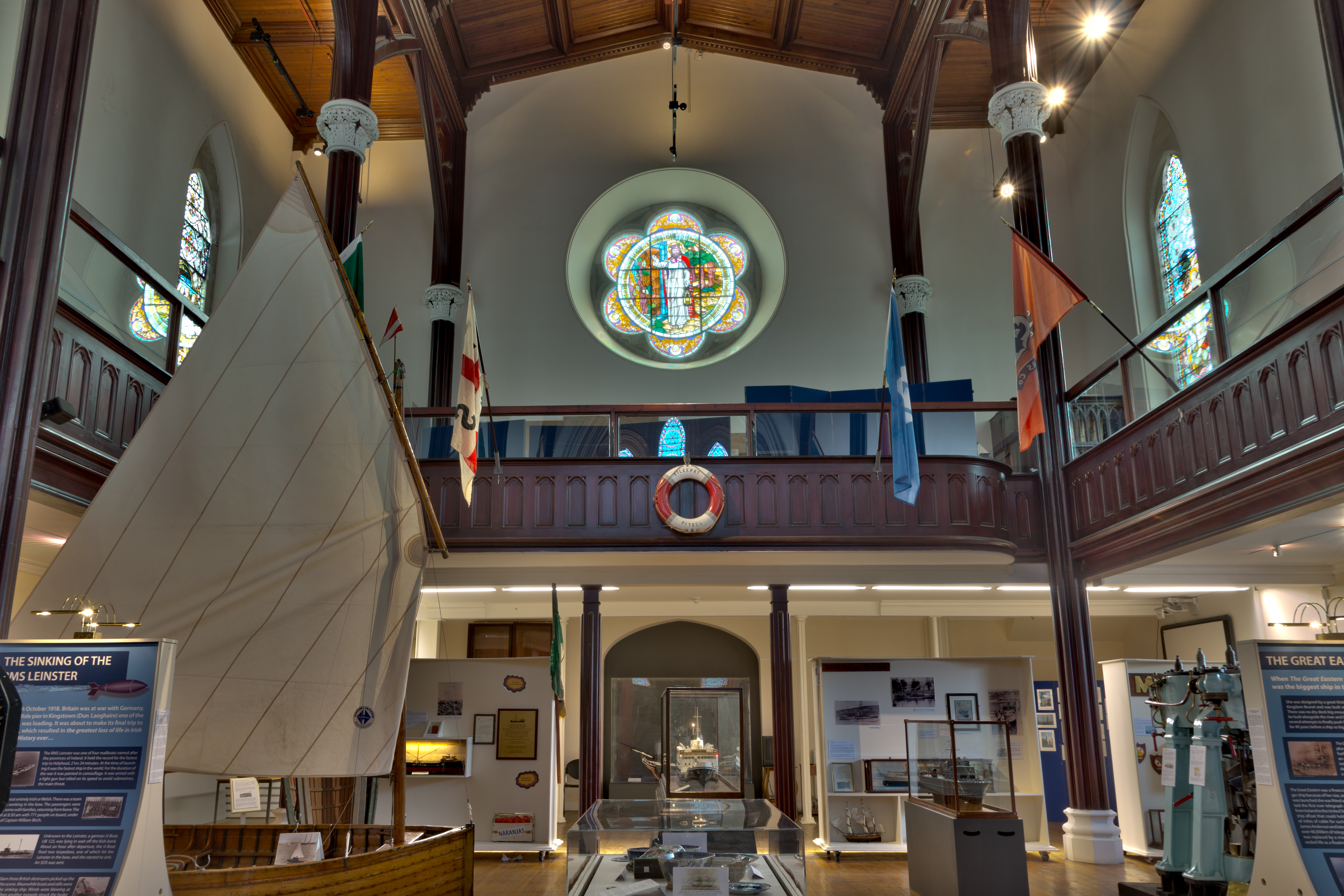 The National Maritime Museum of Ireland is located inside of the Mariner's Church in Dún Laoghaire. For more information visit: This is a 5 exposure HDR (-2, -1, 0, +1, +2 ev), merged, tonemapped and post-processed in Photoshop CS6.